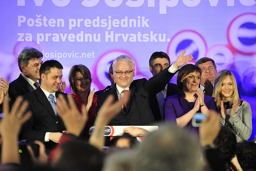 Ivo Josipović as he prepares to give a victory speech on election night, 2010